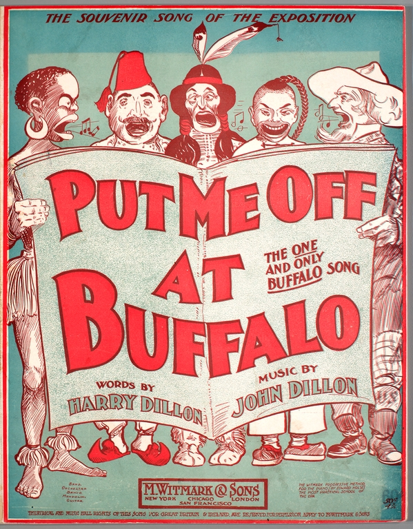 1901 publication of 1895 song, "Put Me Off at Buffalo" by Harry and John Dillon, released in connected with the Pan-American Exposition